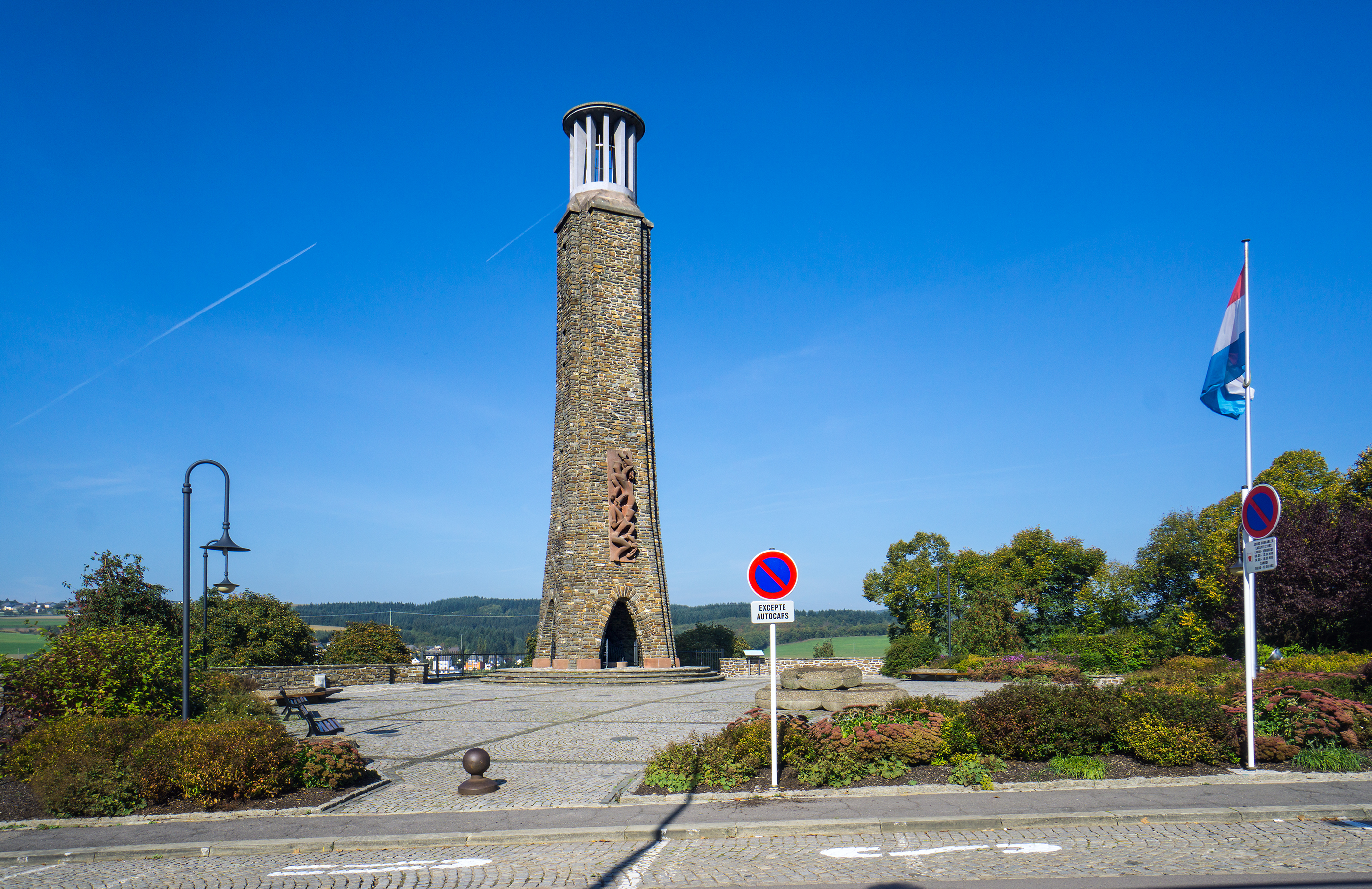 National strike memorial in Wiltz